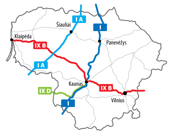 Lithuania-roads-(Trans European Network)